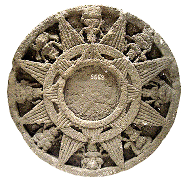 Emblem of the Majapahit Empire